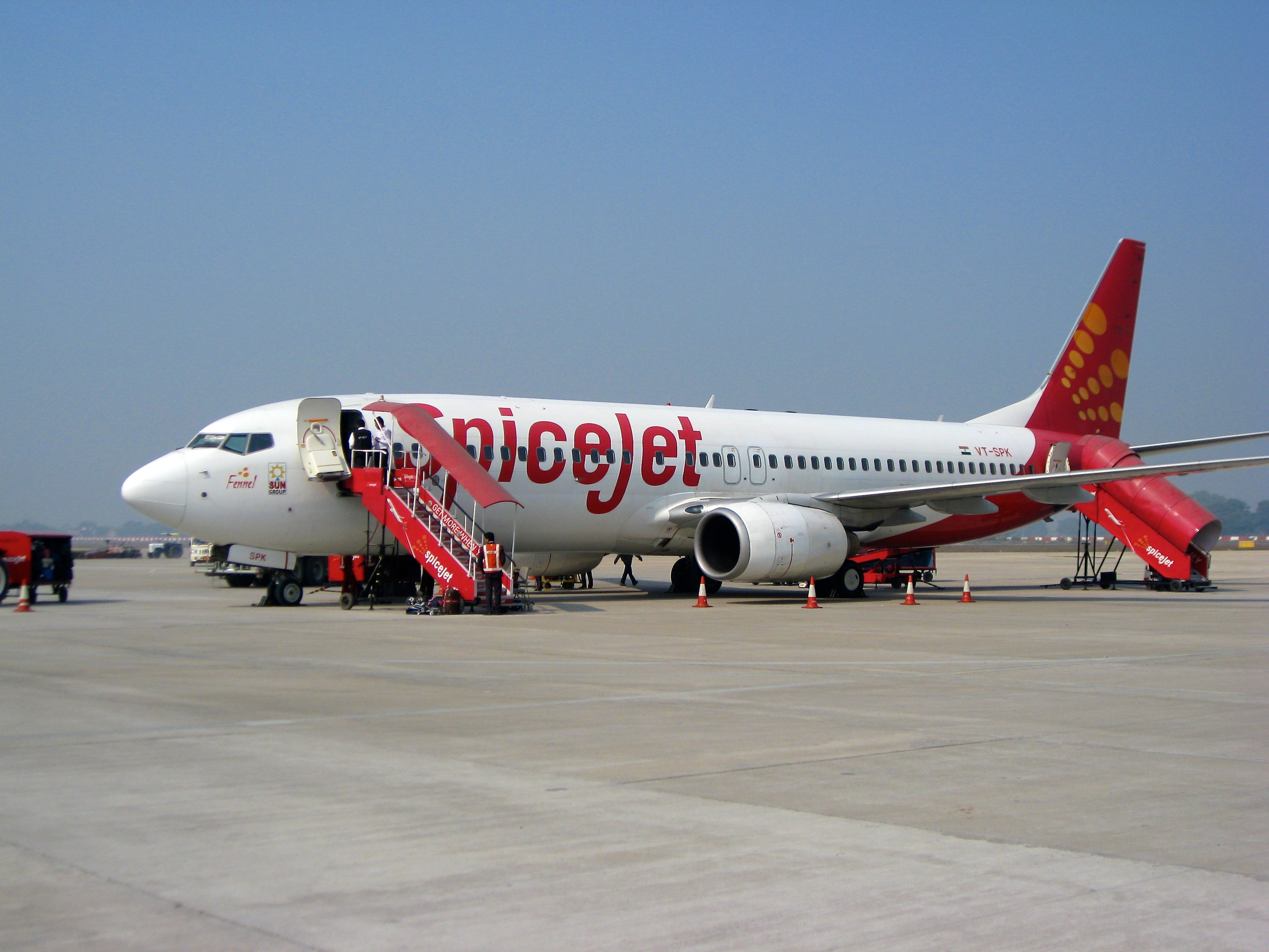 SpiceJet aircraft at Varanasi Airport.